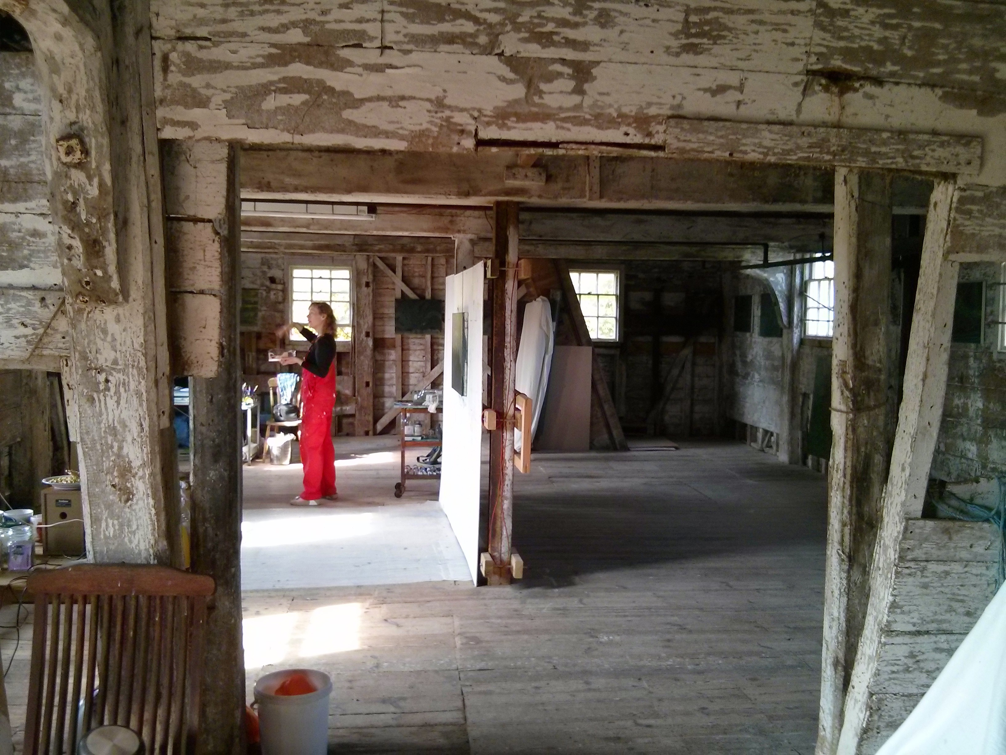 Artist Amanda Ansell at work in her studio, September 2014